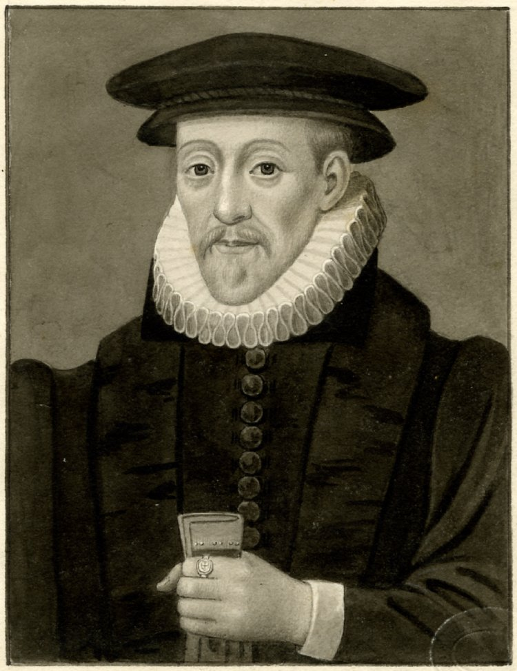 Portrait of English dramatist Thomas Legge, L.L.D., by Sylvester Harding. Brush drawing in grey wash, with pen and grey ink. 111 mm x 81 mm. Courtesy of the British Museum, London.